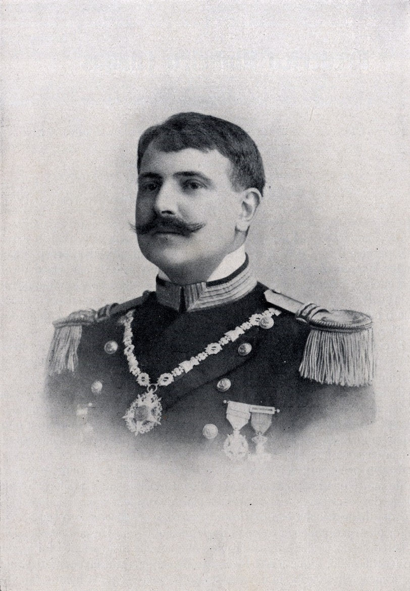 Frederico Pinheiro Chagas (1882-1910), second lieutenant of the Portuguese Navy